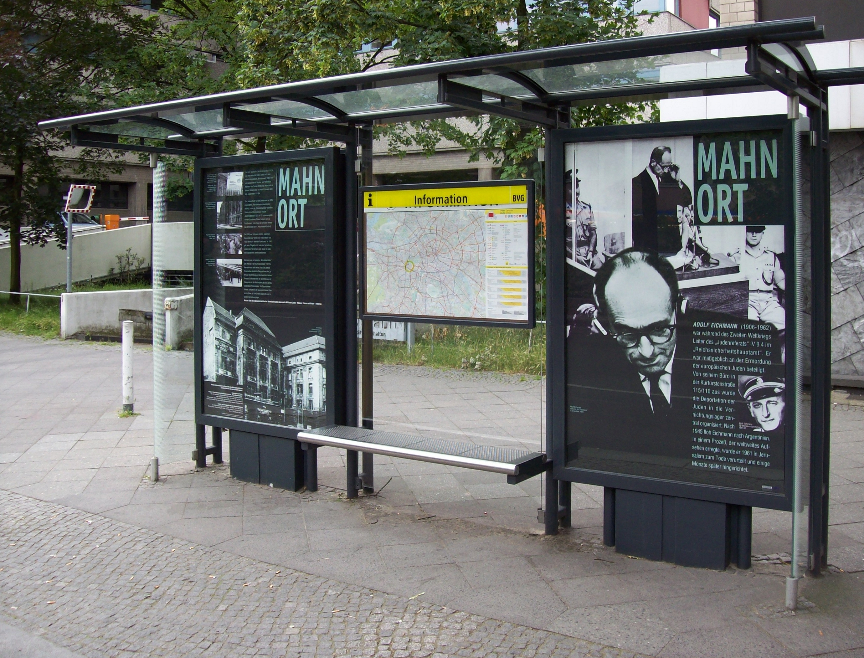 Bus stop in front of the former Referat IV B4 offices in Berlin. "A German-English poster exhibit was established in December 1998 in a bus-stop shelter of the no. 100 bus line. It is located in front of the property at Kurfürstenstraße 115/116 where, during World War II, a division of the Reich Security Main Office was located: the notorious 'Jewish affairs' department (IV B 4) run by Adolf Eichmann." See "Remembrance Site on Kurfürstenstraße". Topographie des Terrors.